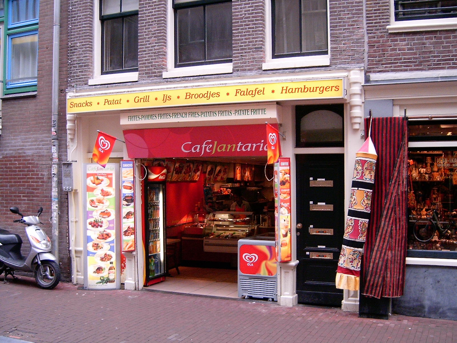 Snackbar in Amsterdam